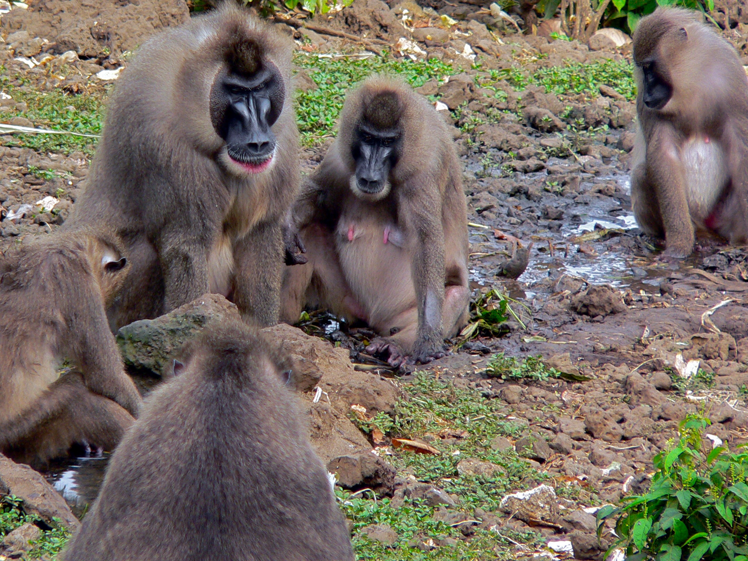 Limbe Wildlife Center, CAMEROON